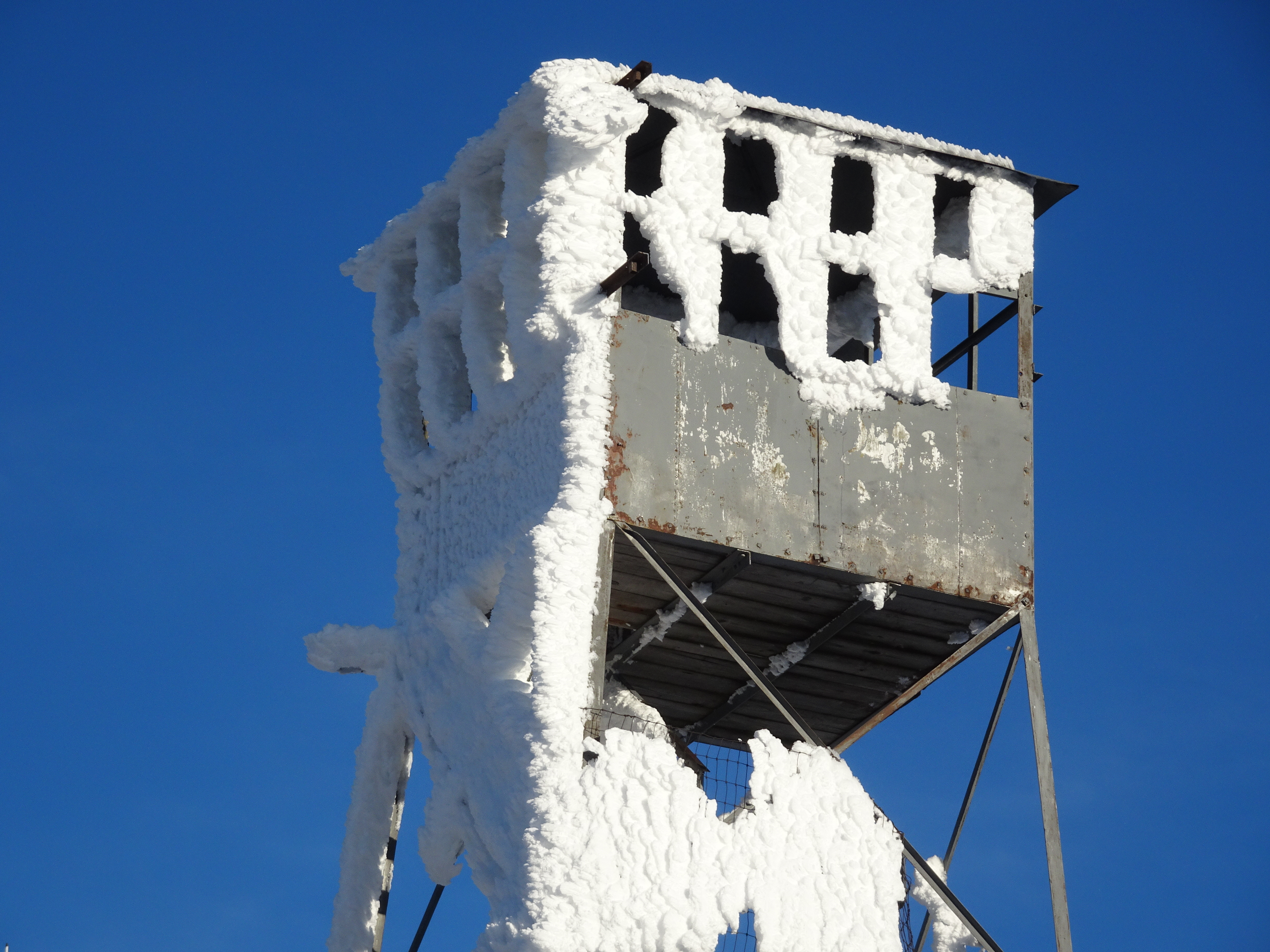 A lot of frost built up on a sunny day. Blue Mountain (New York)